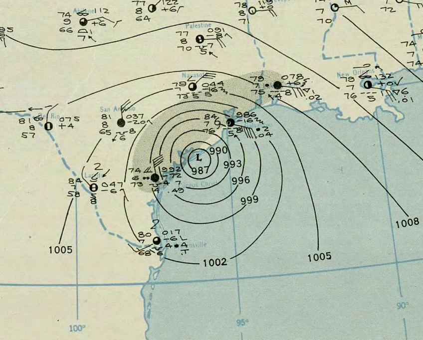 Surface weather analysis of the 1942 Palacios hurricane on 28 August 1942